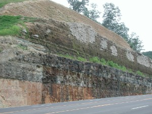 A rock formation in Tennessee. Image taken by me and released under the GFDL. Pollinator 03:36, Nov 9, 2004 (UTC)